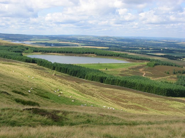 Bonaly Reservoir. The reservoir and a sample of the rough grazing that makes up the northern slopes of the Pentland Hills. This picture was taken less than 8km from Edinburgh Castle.